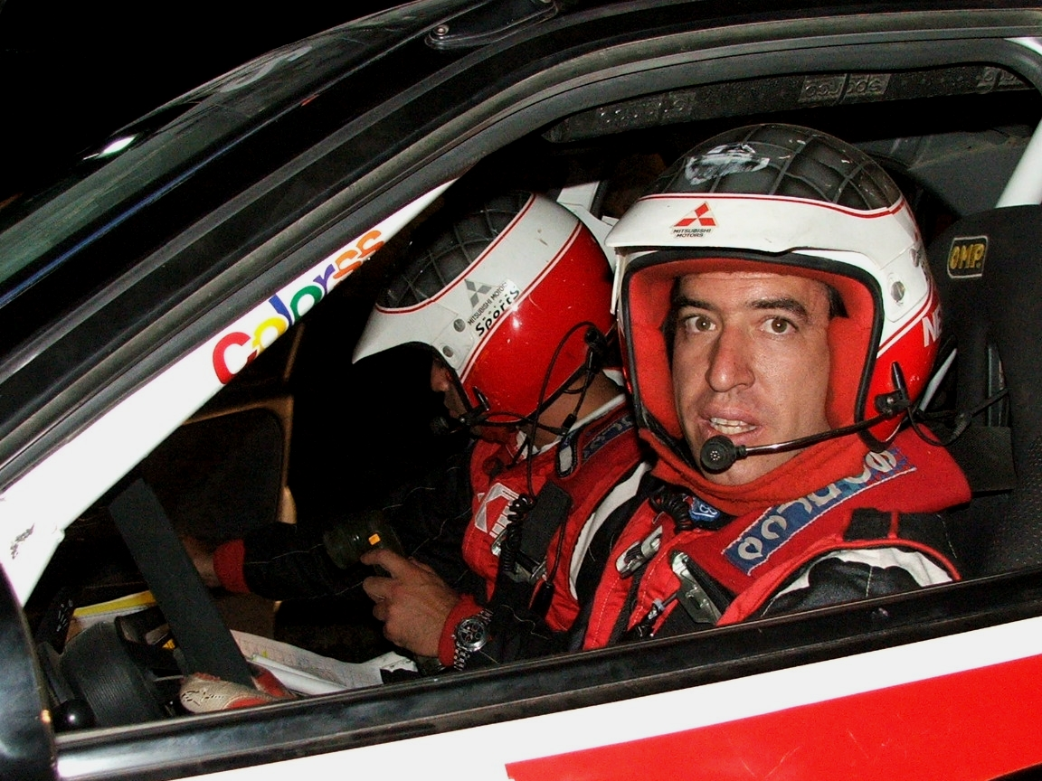 Erwin Richter at the Rally Patrio 2005.